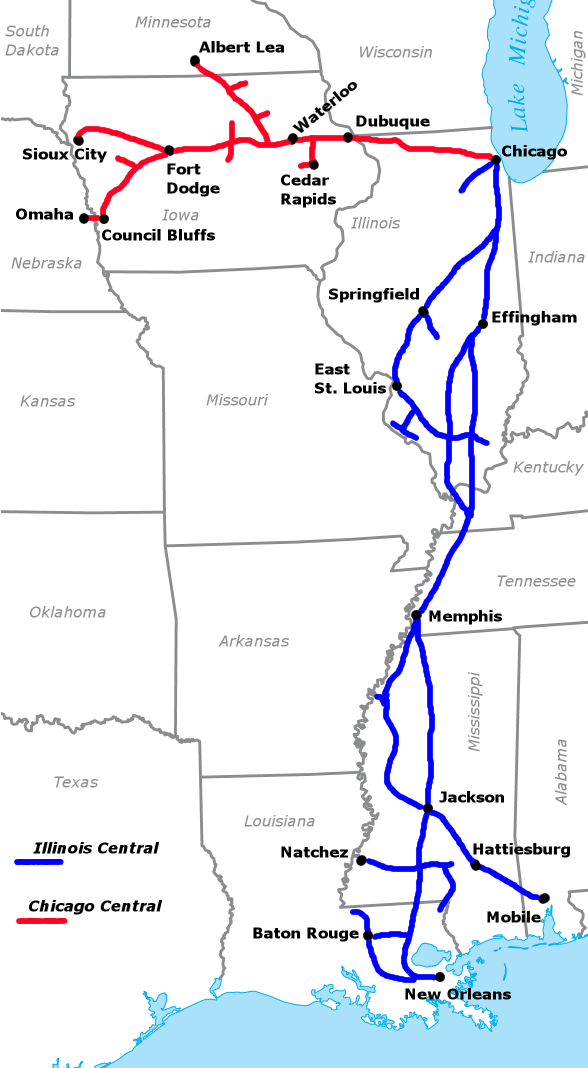 Combined route map of the Chicago Central Railroad (red) and Illinois Central Railroad (blue) as they existed in 1996. Map by Sean Lamb (User:Slambo), January 14, 2006. State outlines and water feature names cropped from Image:US_state_outline_map.png, routes, city dots, city and state names added with the GIMP.